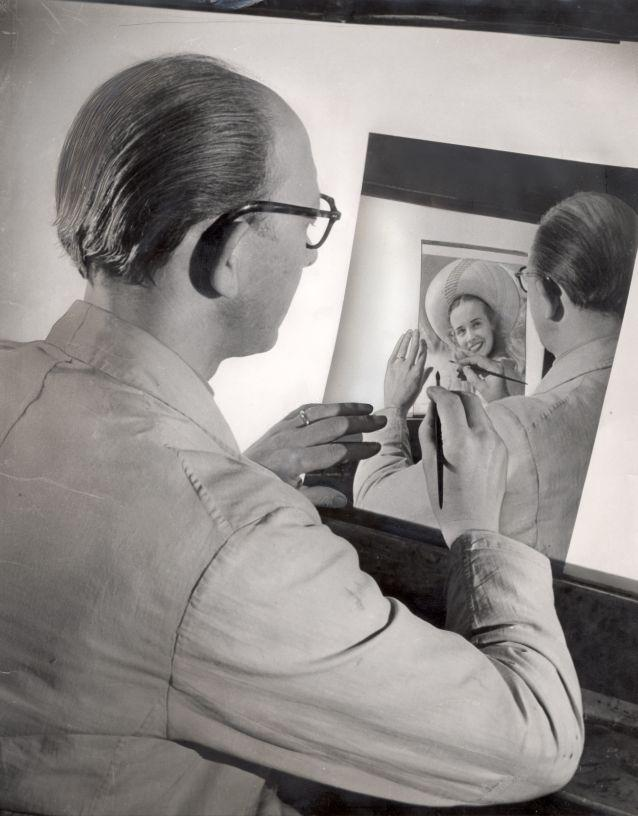 Spaarnestad Photo, fotonummer SFA005000087 Retoucheur aan het werk [waarschijnlijk op retouche-afdeling bij N.V. Drukkerij De Spaarnestad]. Een foto wordt met penseel bewerkt op een lichtbak. Ten behoeve van het [bijna Droste-]effect is de afdruk zelf licht met retoucheverf bewerkt. Haarlem, 1952. Voor meer informatie en voor meer foto’s uit de collectie van Spaarnestad Photo, bezoek onze Beeldbank: U kunt ons helpen onze kennis van de fotocollecties te verrijken door tags en commentaren toe te voegen. Herkent u mensen of locaties of heeft u een bijzonder verhaal te vertellen bij één van de foto’s, laat dan een reactie achter (als u ingelogd bent bij Flickr) of stuur een mailtje naar